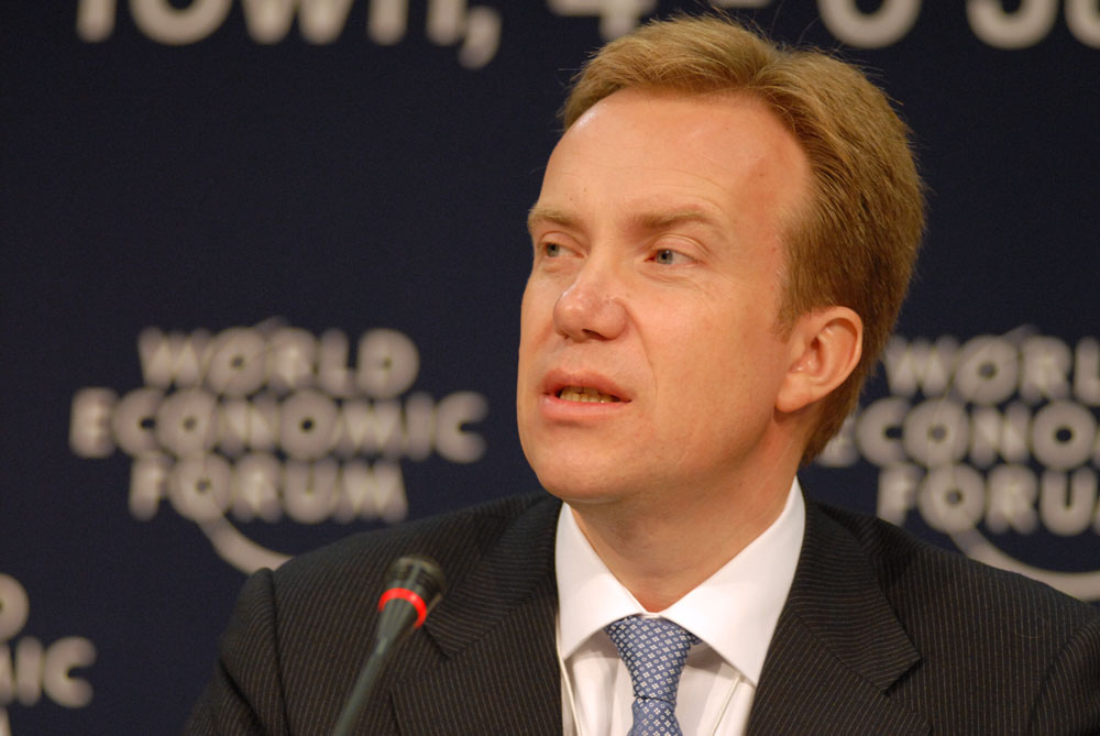 Børge Brende, Managing Director of the World Economic Forum, captured during the Opening Press Conference of the World Economic Forum on Africa 2008 in Cape Town, South Africa.